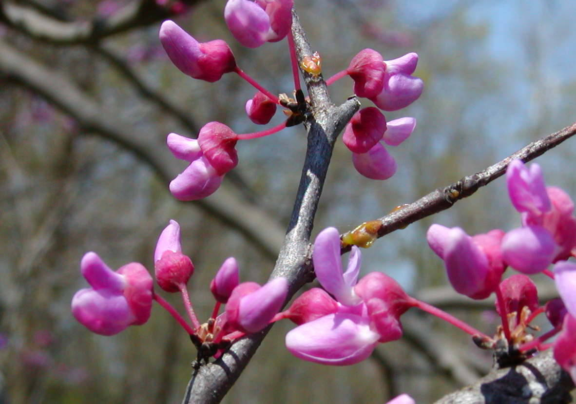 Redbuds blooming near Cincinnati, OH.